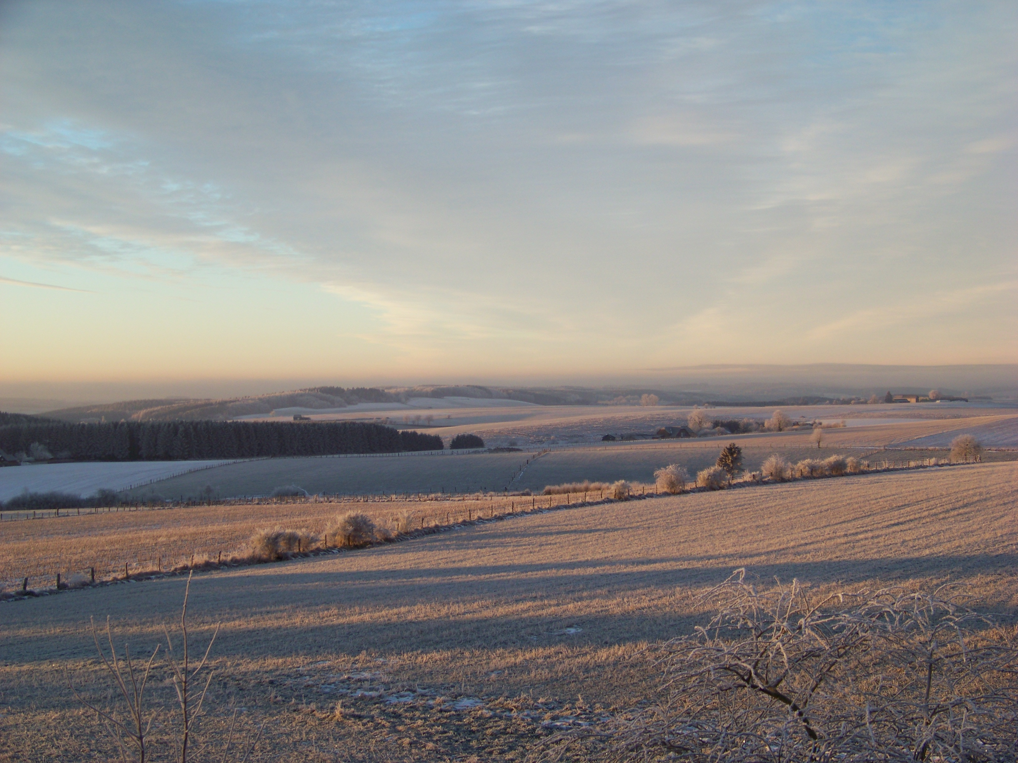 Winter landscape near Martelange, Luxembourg Province, Belgium